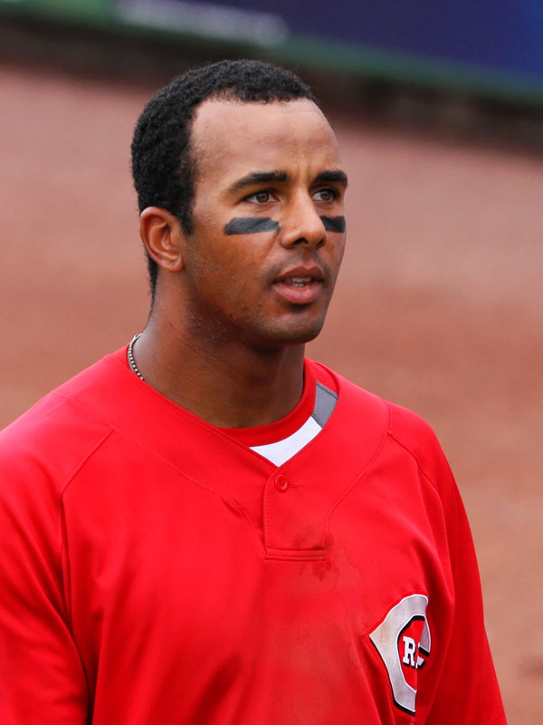 Chris Dickerson, Spring Training 2009 Original upload log 23:11, 8 April 2009 . . BubbaFan . . 600×800 (57 KB)